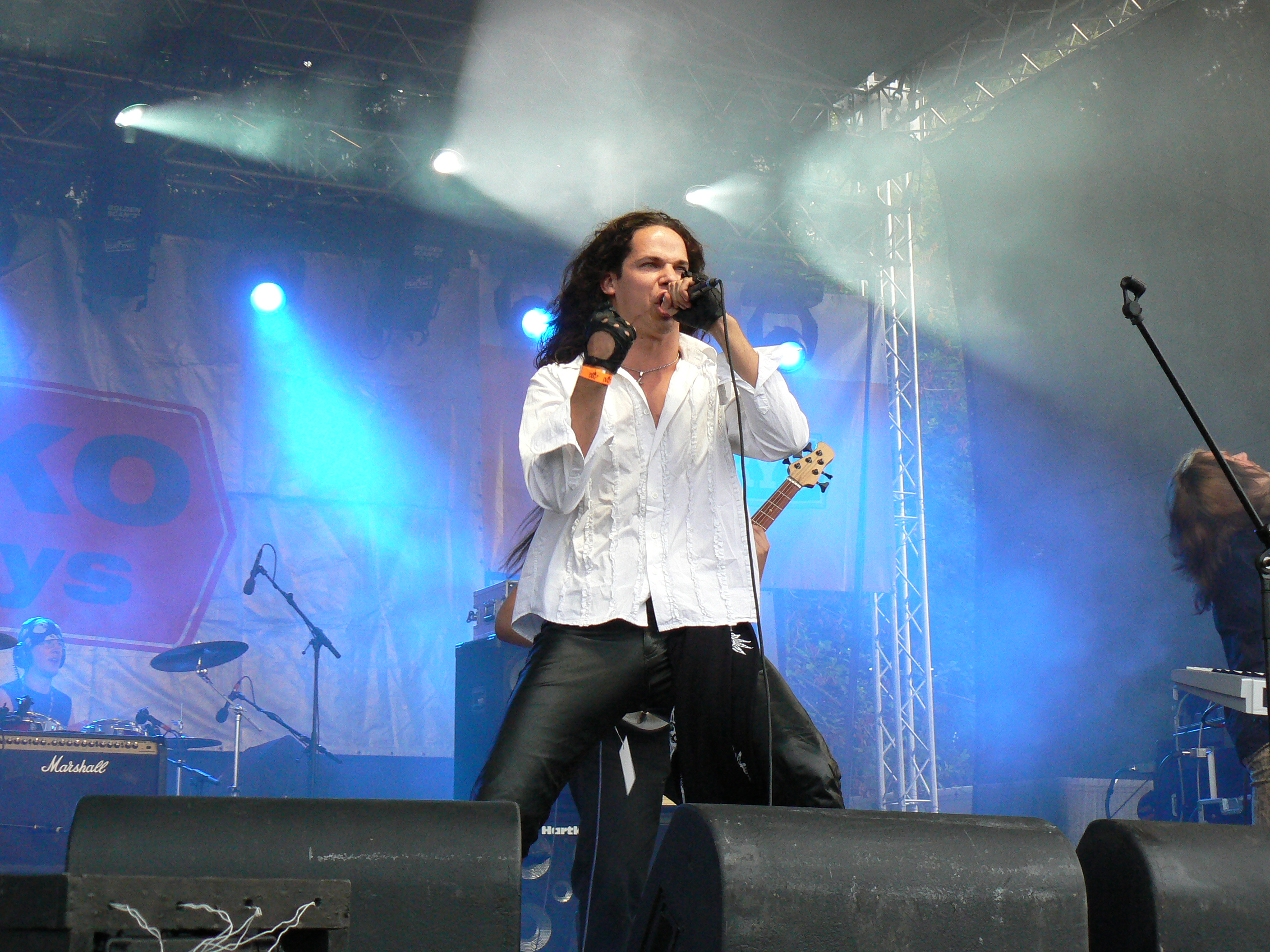 Jeronimas Milius from Soul Stealer (formerly Soul Brothers) performing at Rock Nigts 2006 festival in Plateliai, Lithuania.